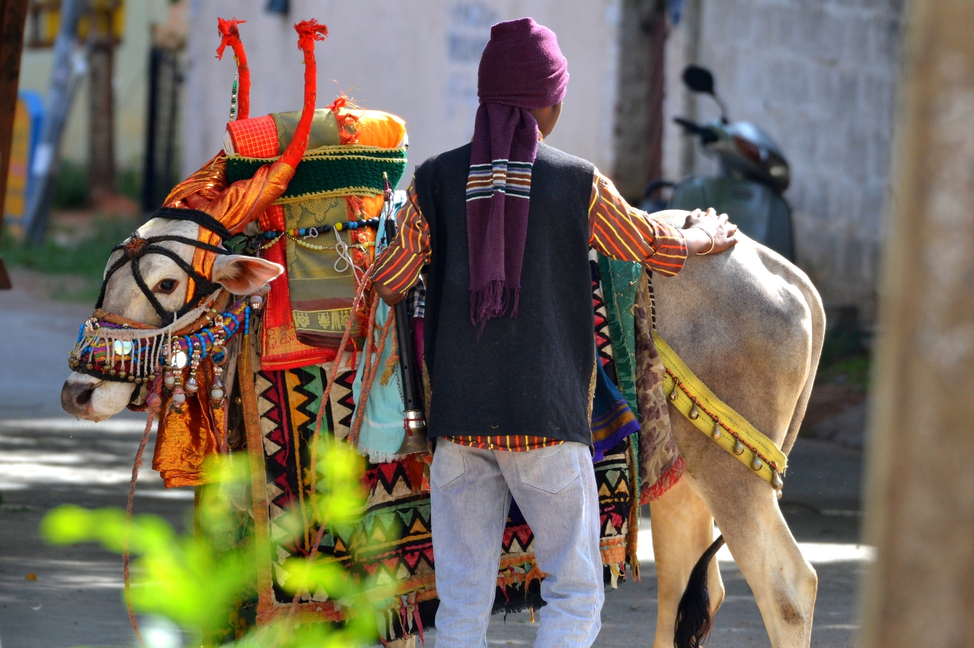 Gangireddu the decorated bulls of Hyderabad